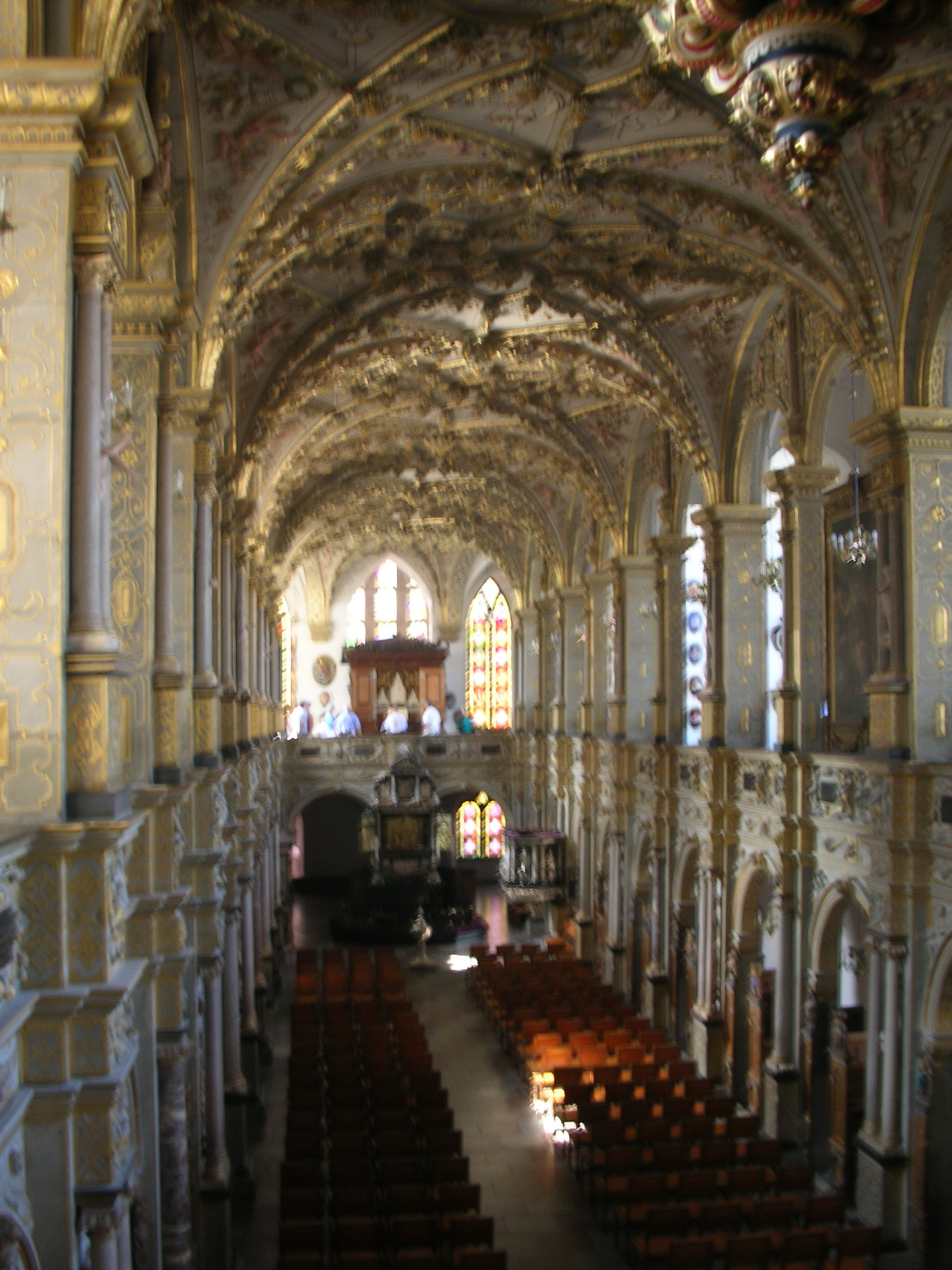 The church of Frederiksborg castle in Hillerod (Denmark)